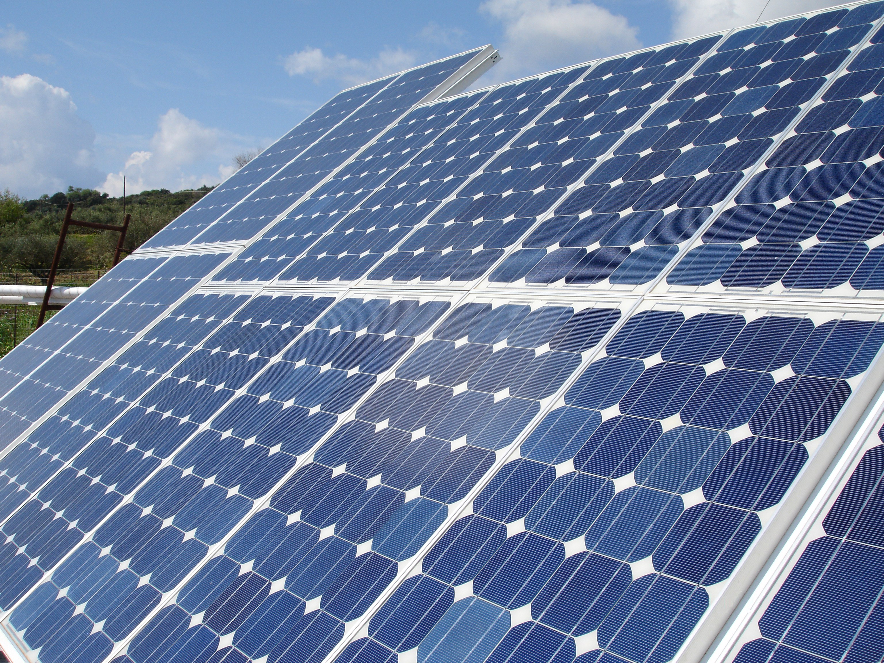 Solar tracker in Lixouri, Kefalonia, Greece